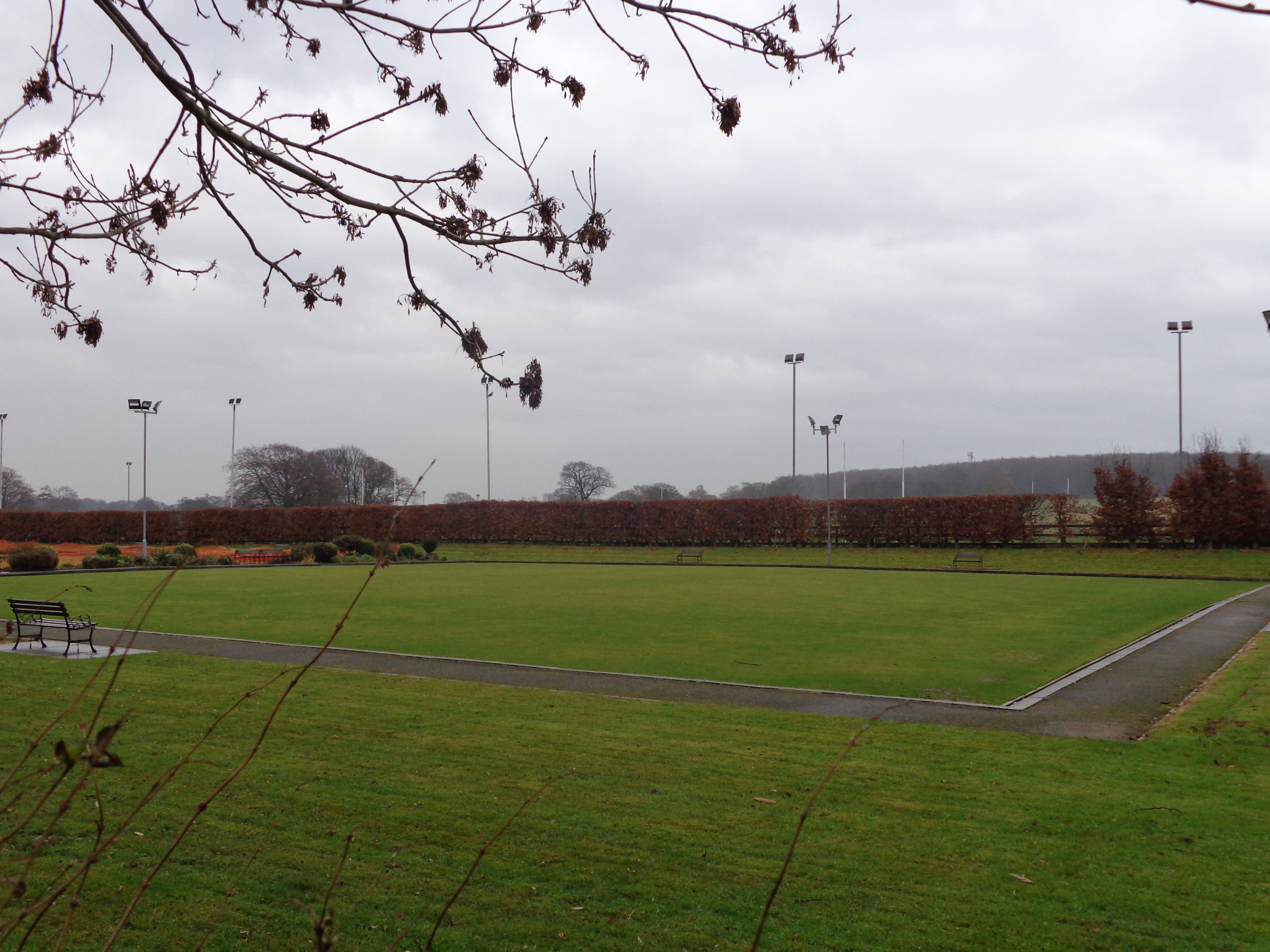 Bowling greens at Grange Park, Wetherby, West Yorkshire. Taken on the afternoon of Friday the 13th of December 2013.